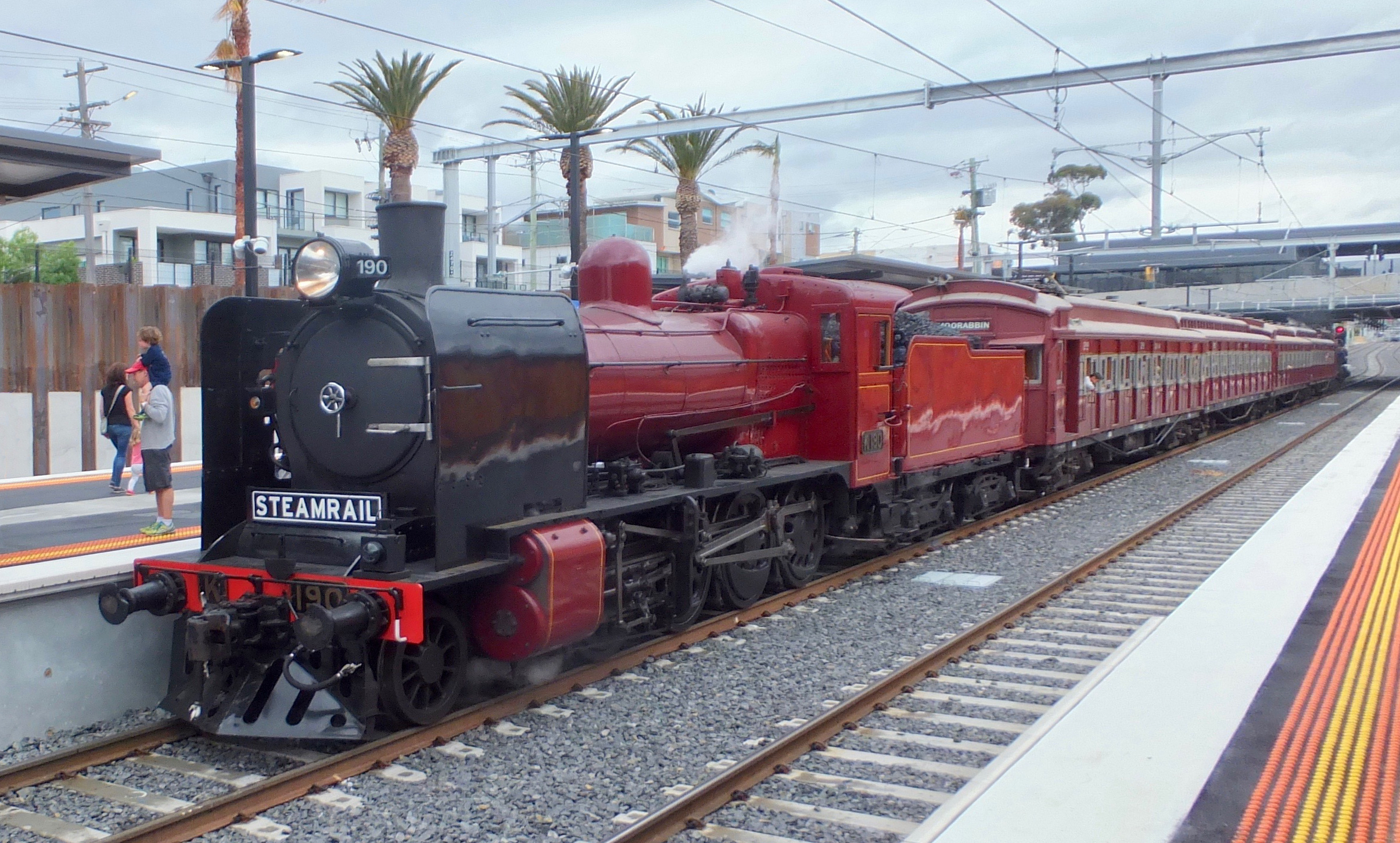 K190 hauling heritage Tait cars at McKinnon Station during a tour